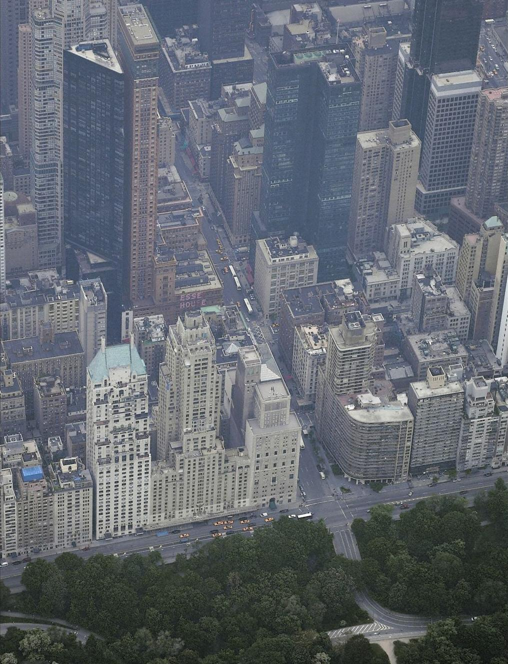 Photo by SDC. Photo of the Metropolitan Tower, the Russian Tea Room, and the Carnegie Hall Tower looking south from Central Park.